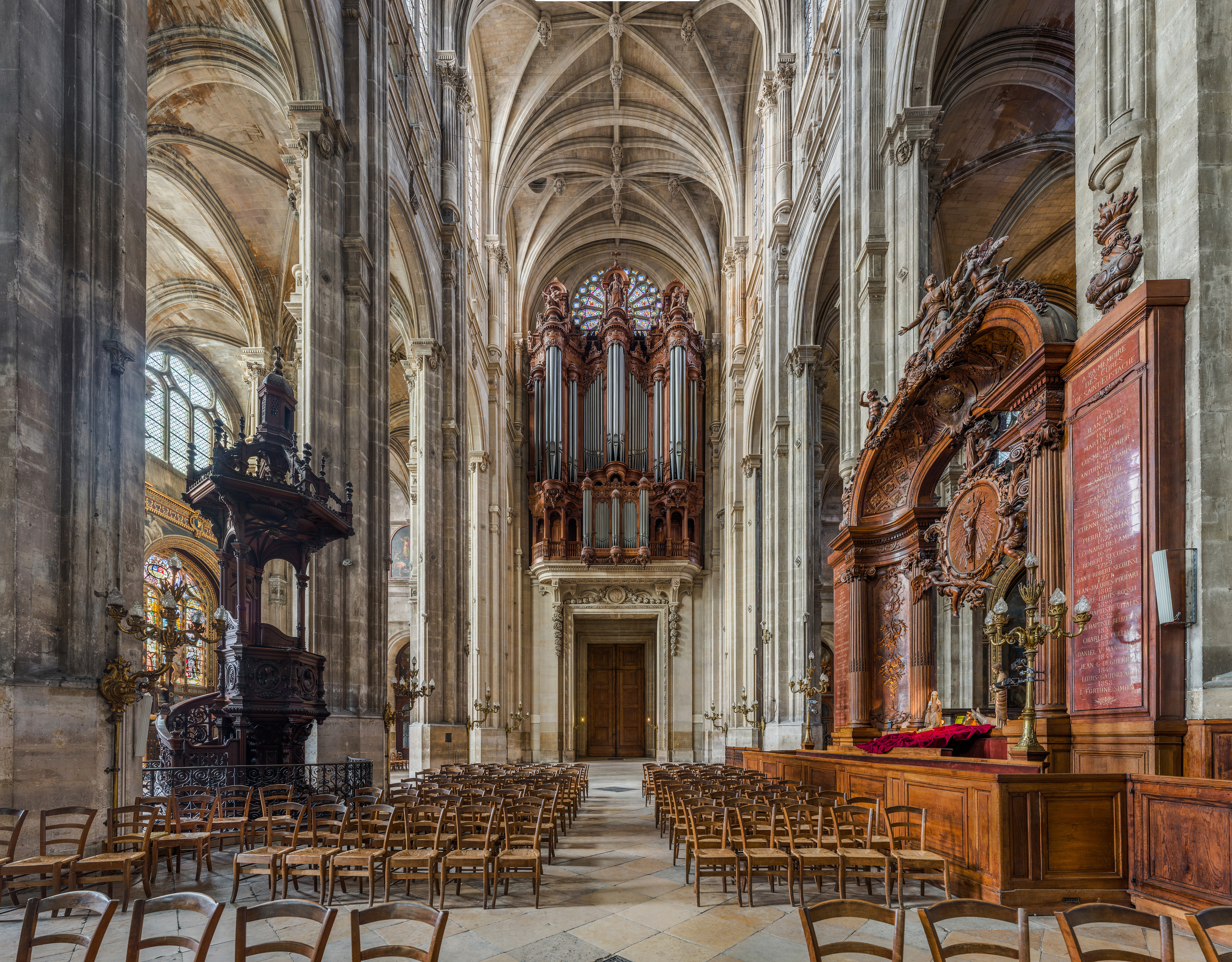 The interior of the Church of St Eustace in Paris, France, with the pulpit on the left, the pipe organ in the top centre and on the right, a bench work (term is translated from the French Wikipedia) by Pierre Lepautre based on designs by Sylvain Cartaud.